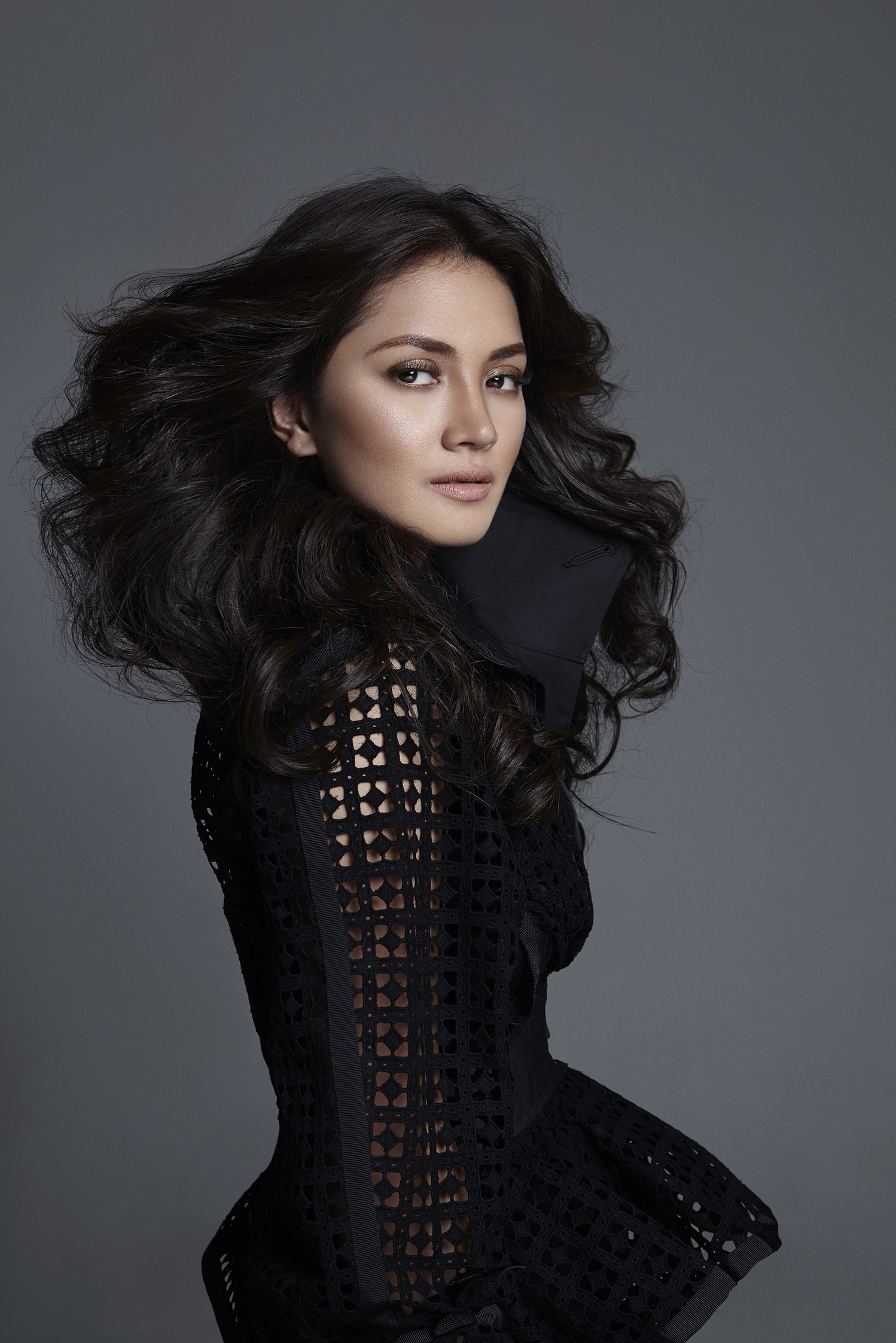 Fazura